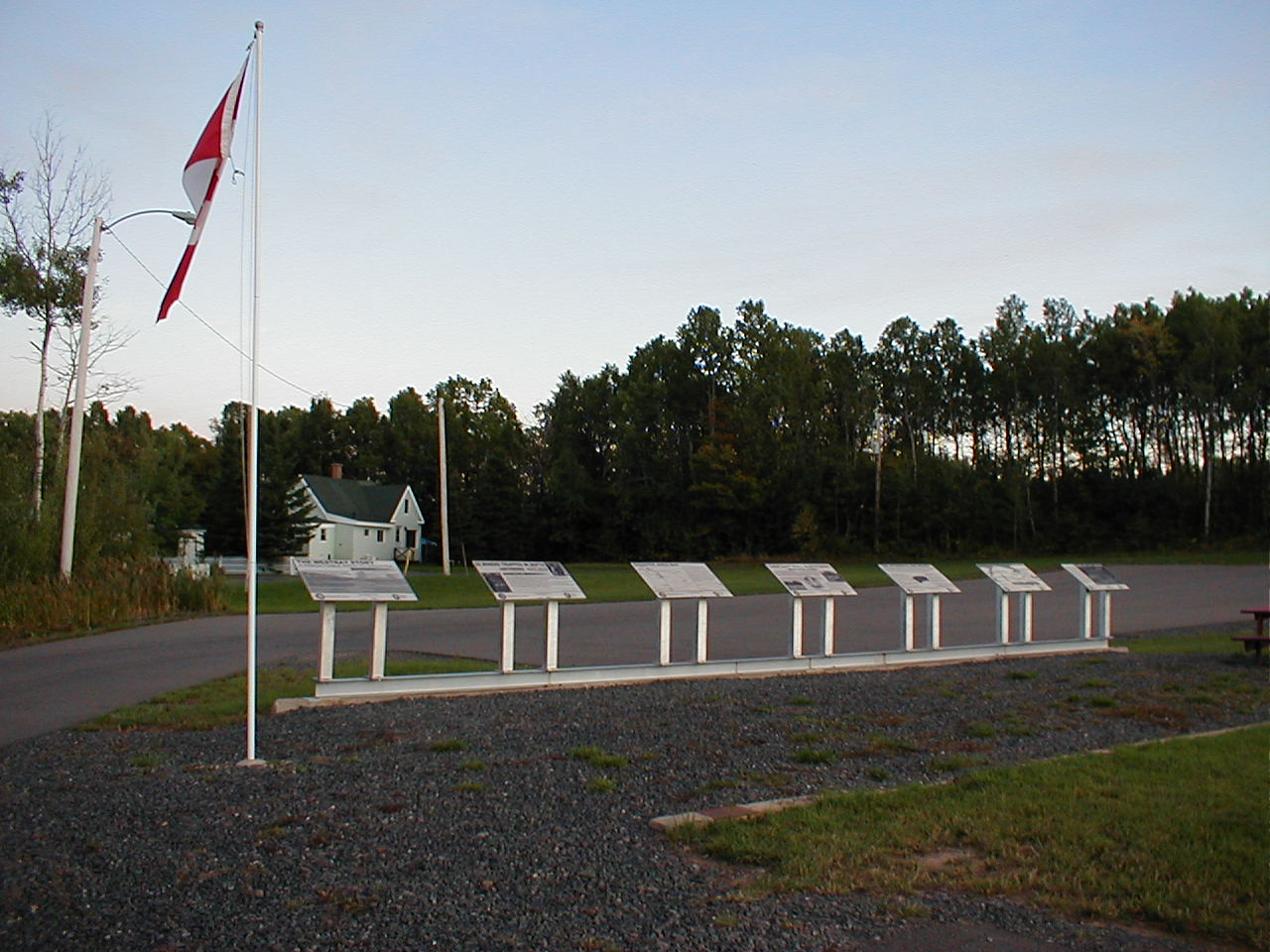 View of Westray Memorial New Glasgow, NS